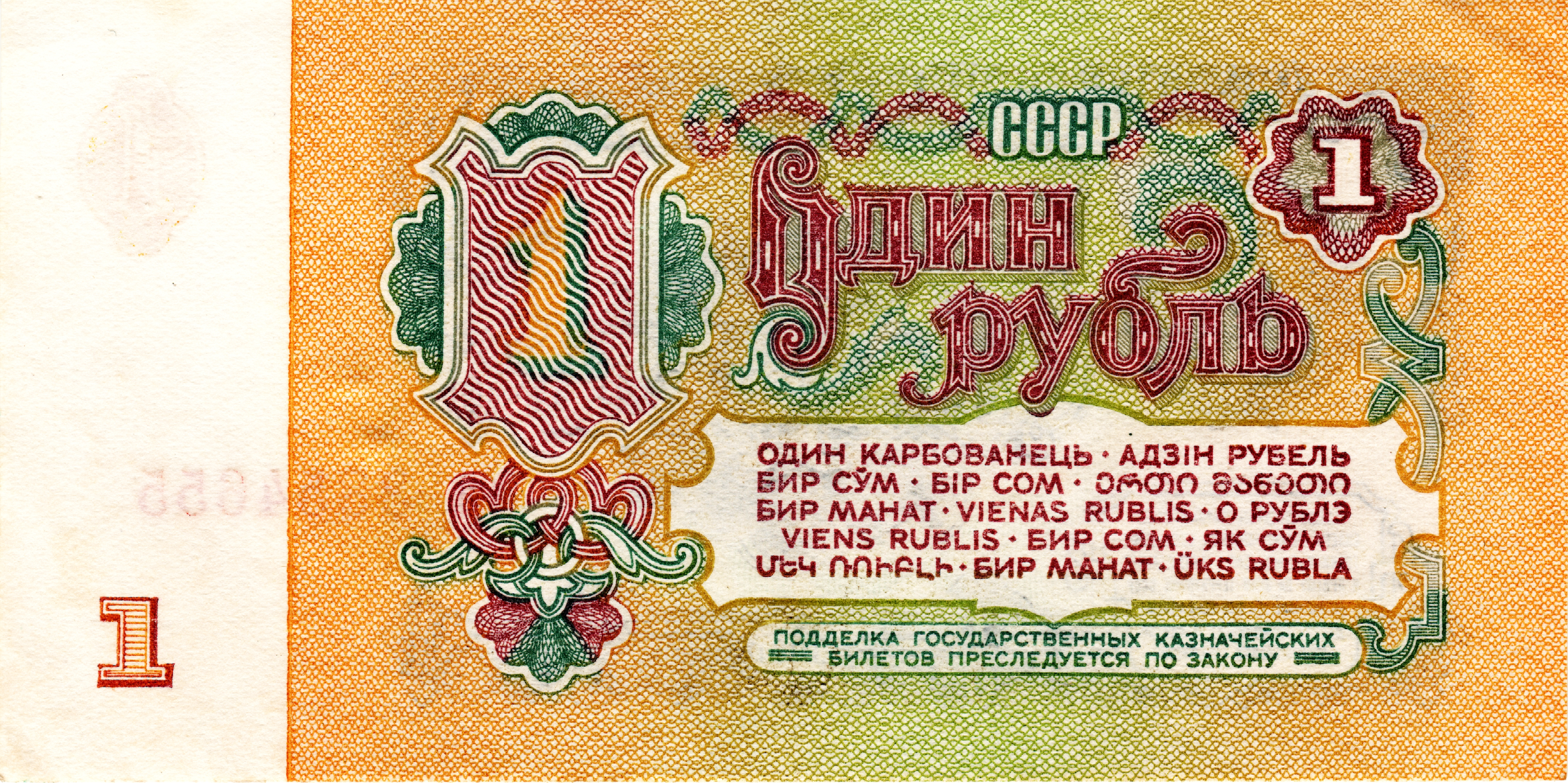 1961 Soviet Union 1 rouble bill. Reverse. See also other side Image:Rouble-1961-Paper-1-Obverse.jpg